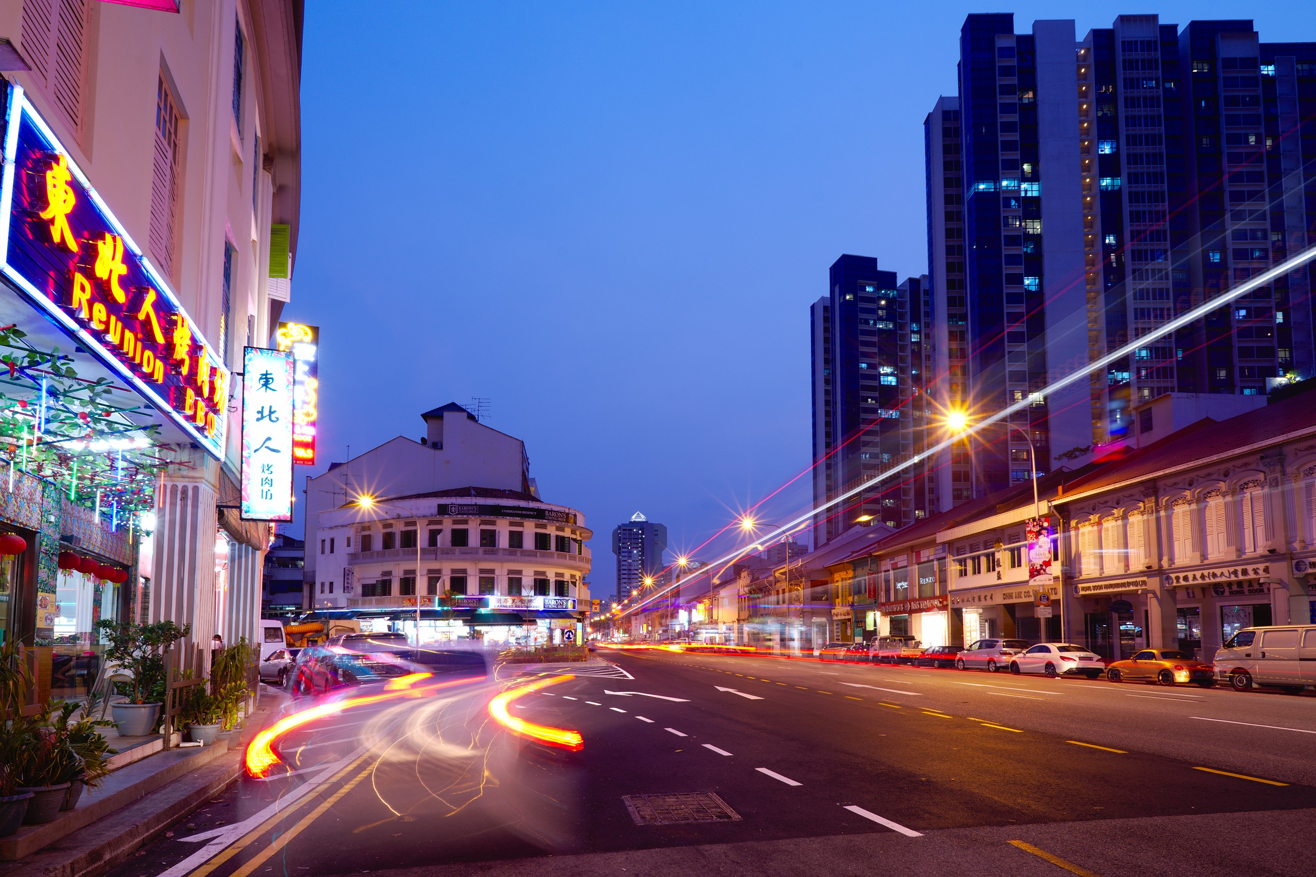 Jalan Besar taken beside Allenby House. Citysquare condominium is on the right, and Rowell Court in the background.